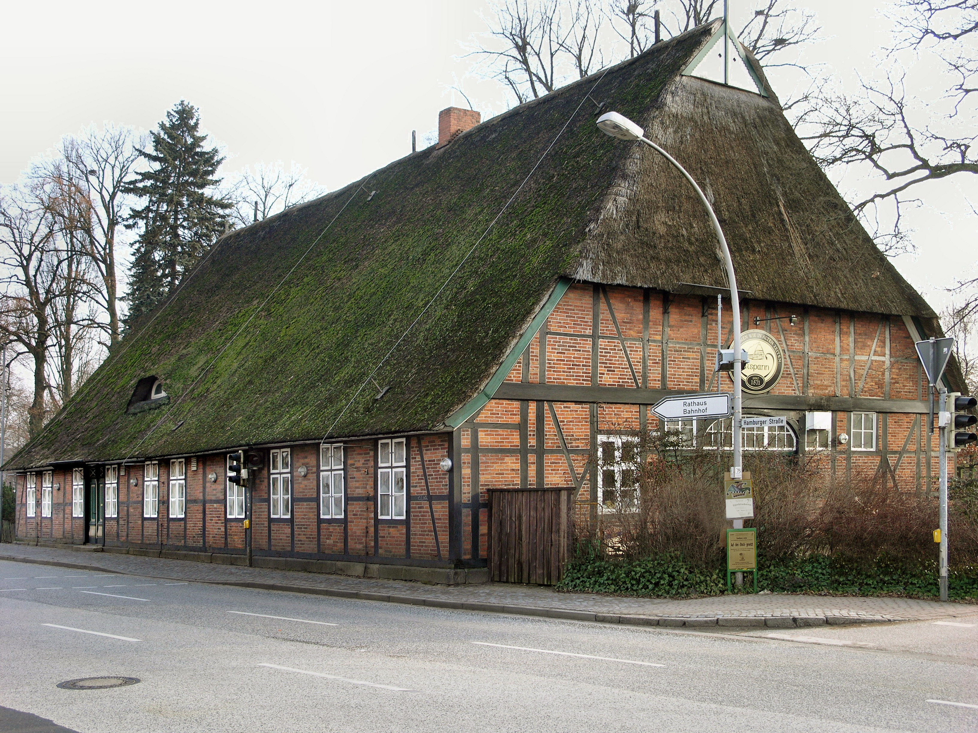 Utspann in Bargteheide built 1571